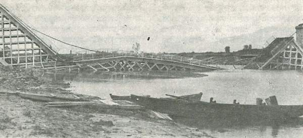 Former Bender (romanian name Tighina) railway bridge after its destruction by Romanian troops in 1919 (photo taken from the romanian bank of the Dniester)